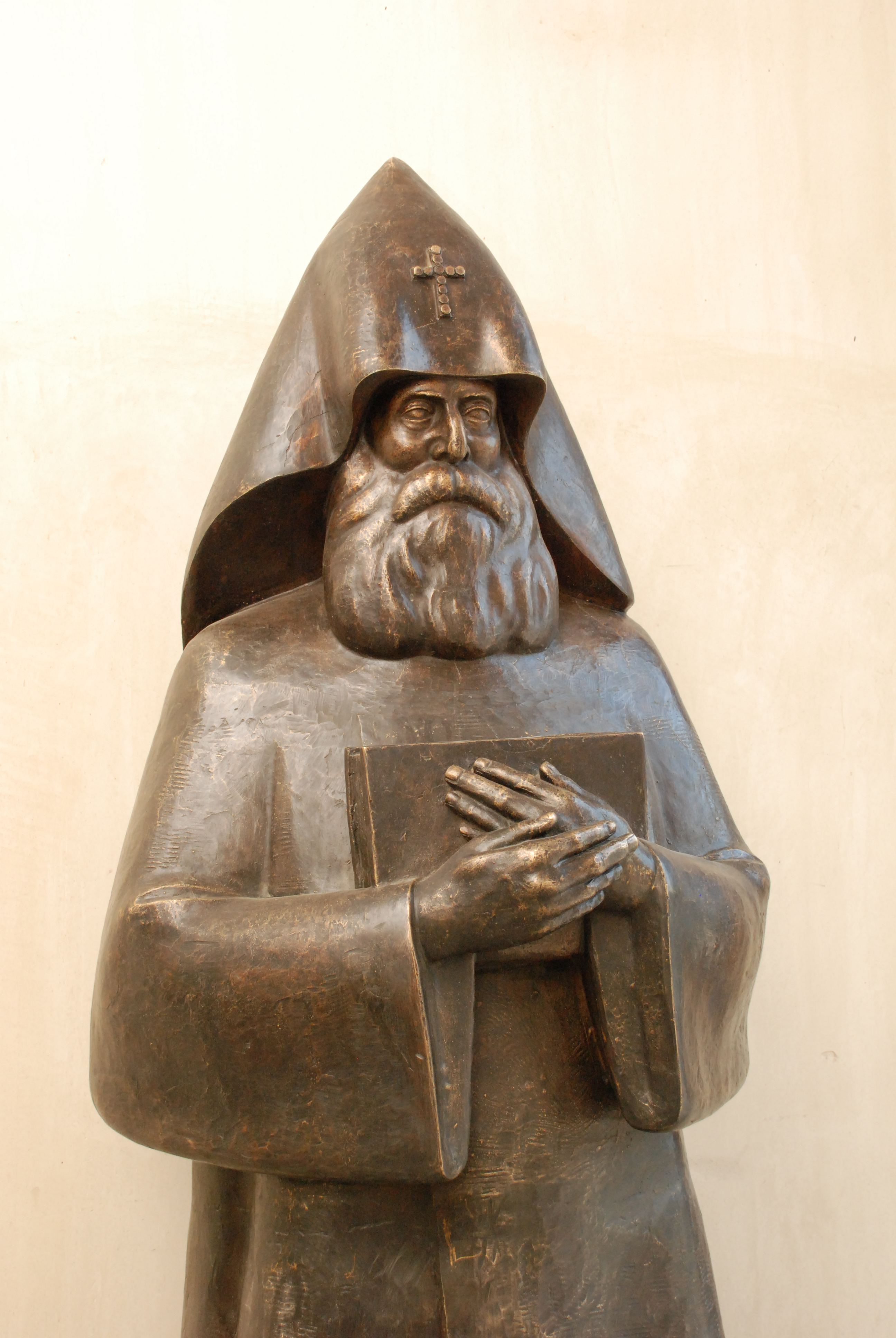 «Խրիմյան Հայրիկ» հուշարձանի դետալ, բրոնզ, գրանիտ, Էջմիածին